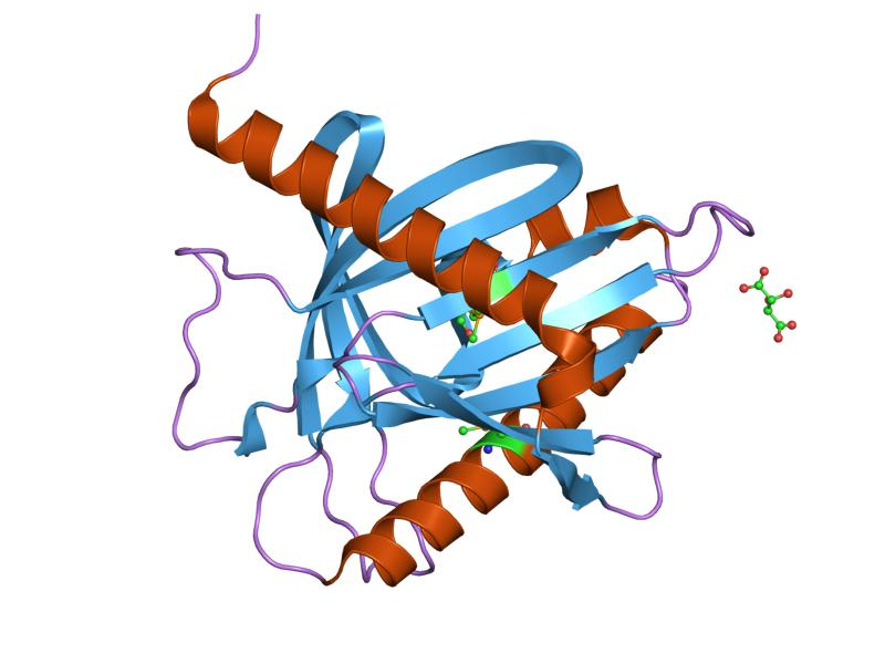 Cartoon representation of the molecular structure of protein registered with 1em2 code.